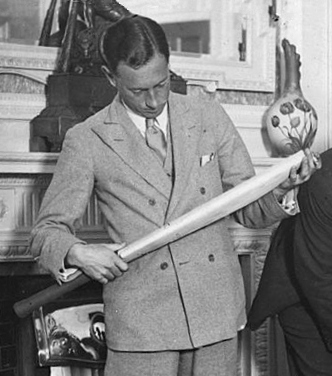 1st May 1931: Members of the New Zealand cricket team in their London hotel room selecting their bats: Roger Blunt.